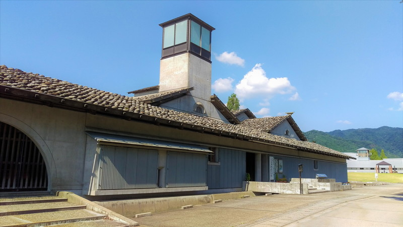 Sekikawa Village's museum "Sekikawa Rekishi to Michi no Yakata"